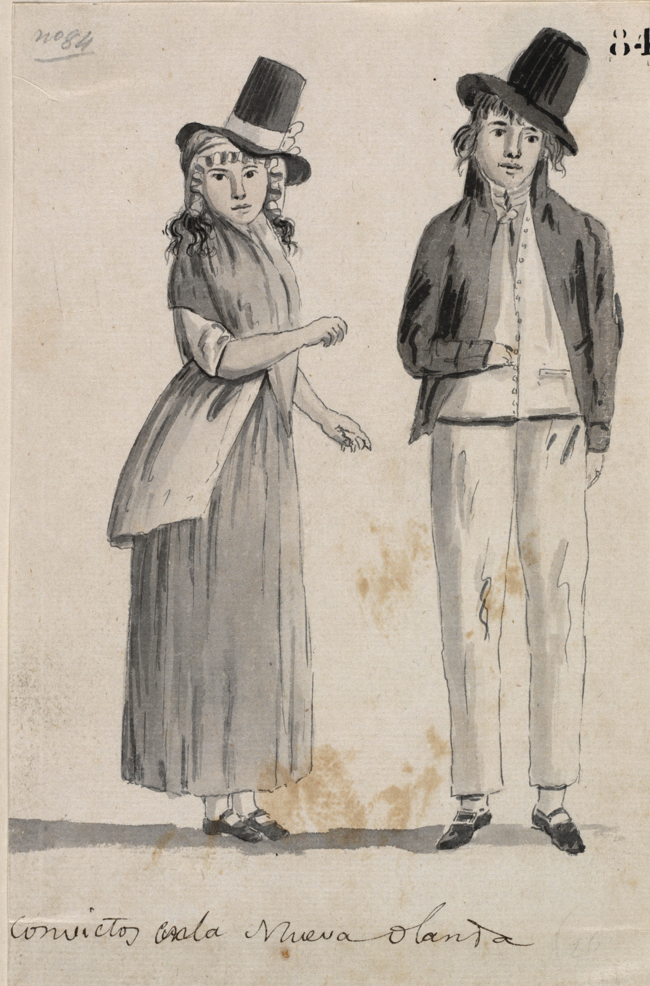 Convicts in New South Wales, lithograph, 1793, wash drwing, Juan Ravenet, State Library of New South Wales SAFE/DGD 2 No. 6